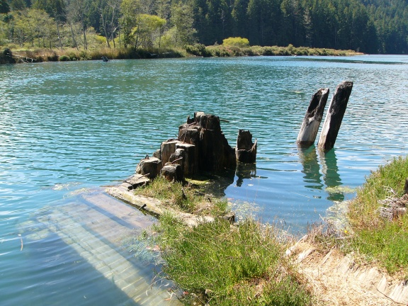 Part of an old bridge on Big River, Mendocino County, California.